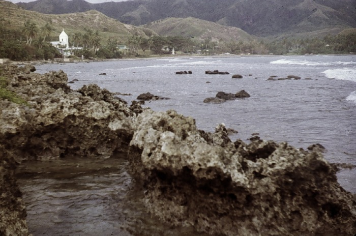 Magellan landing site in Umatac Bay. Image ID: theb3087, Historic C&GS Collection Location: Umatac Bay, Guam, Marianas Islands Photo Date: 1966 Credit: Captain Albert E. Theberge, NOAA Corps (ret.) Publication of the National Oceanic & Atmospheric Administration (NOAA), NOAA Central Library Category:Images of Guam